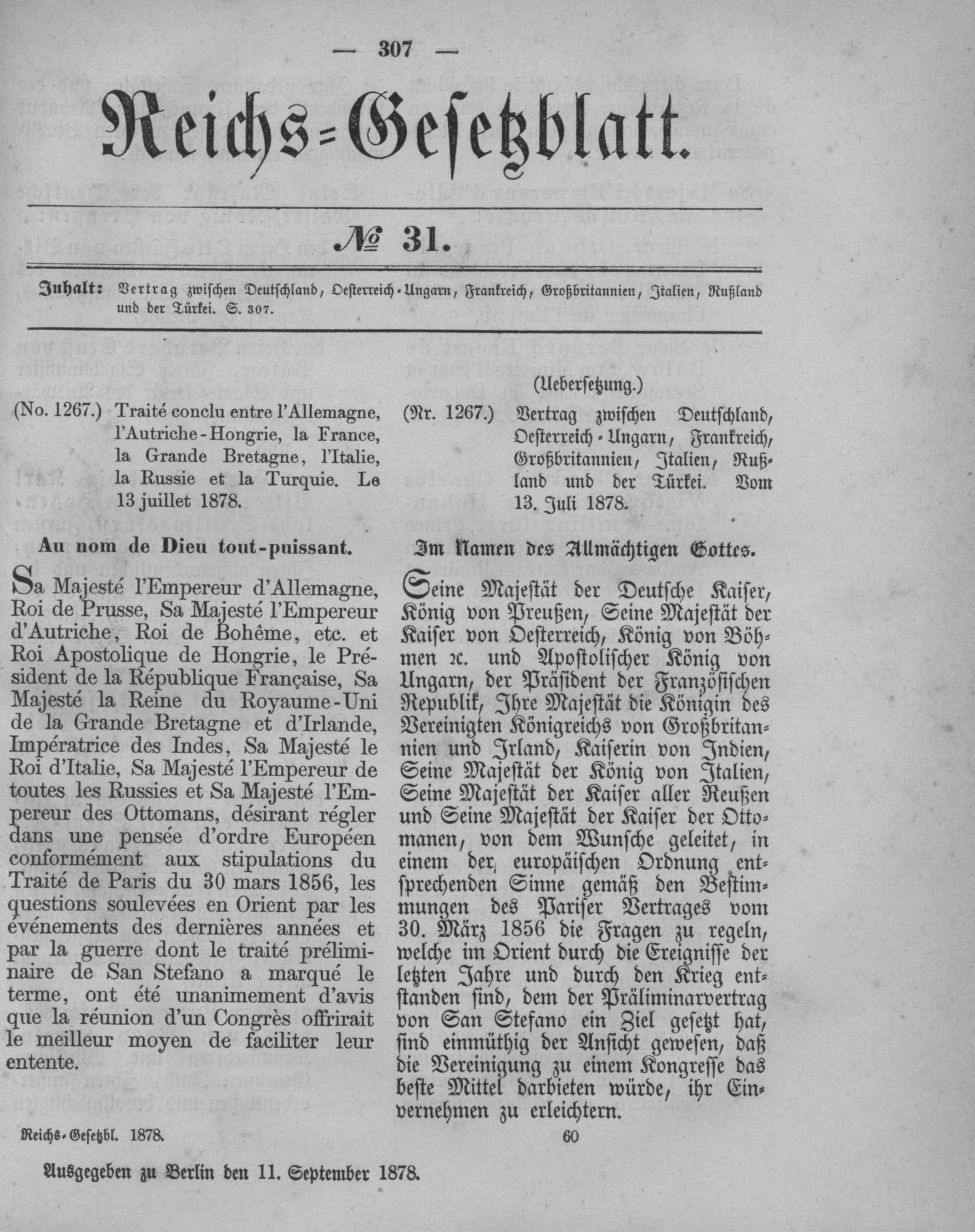 Scan from the Imperial Law Gazette of Germany, 1878